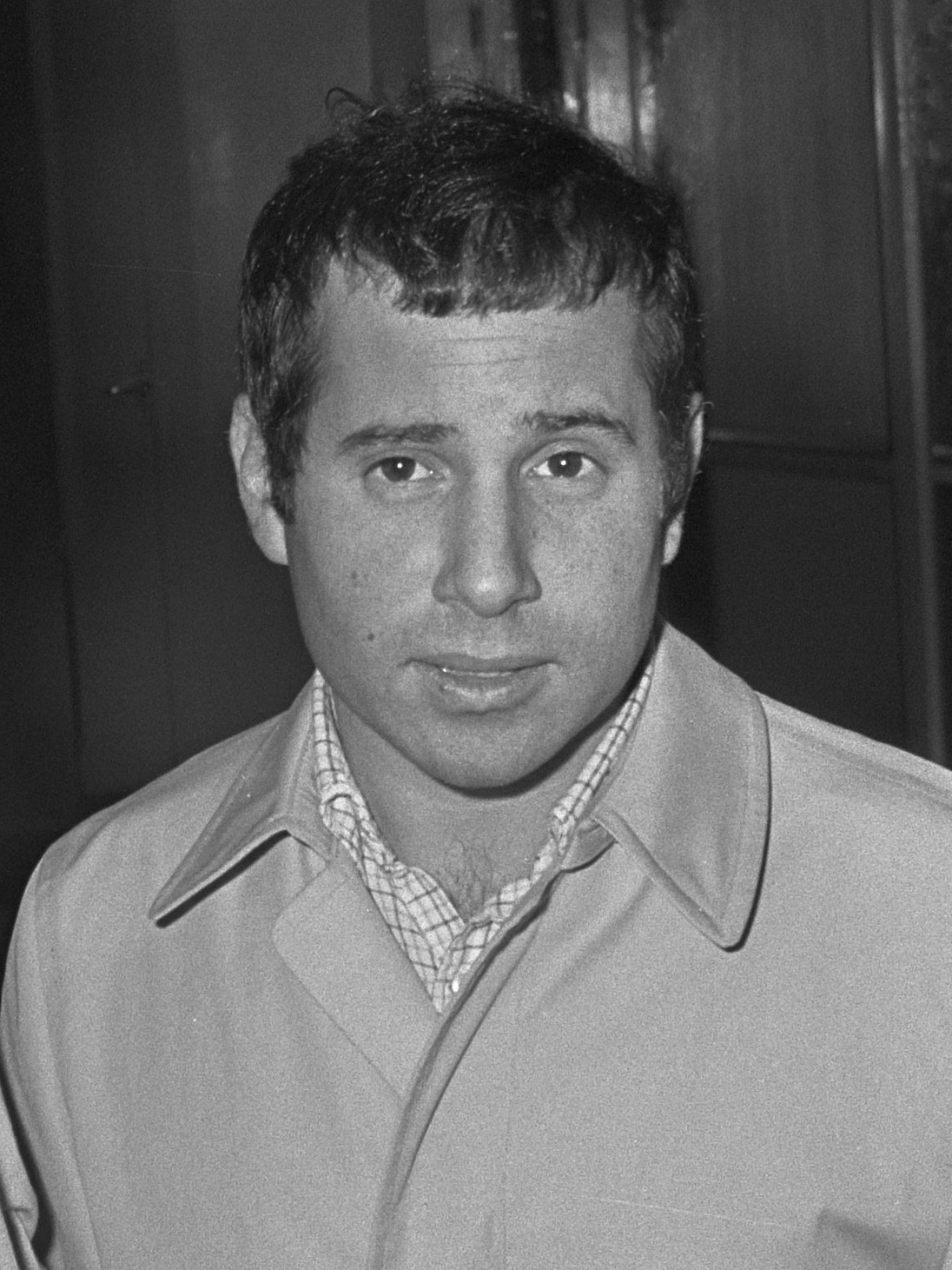 Simon & Garfunkel arrive at Schiphol Airport, The Netherlands in 1966.